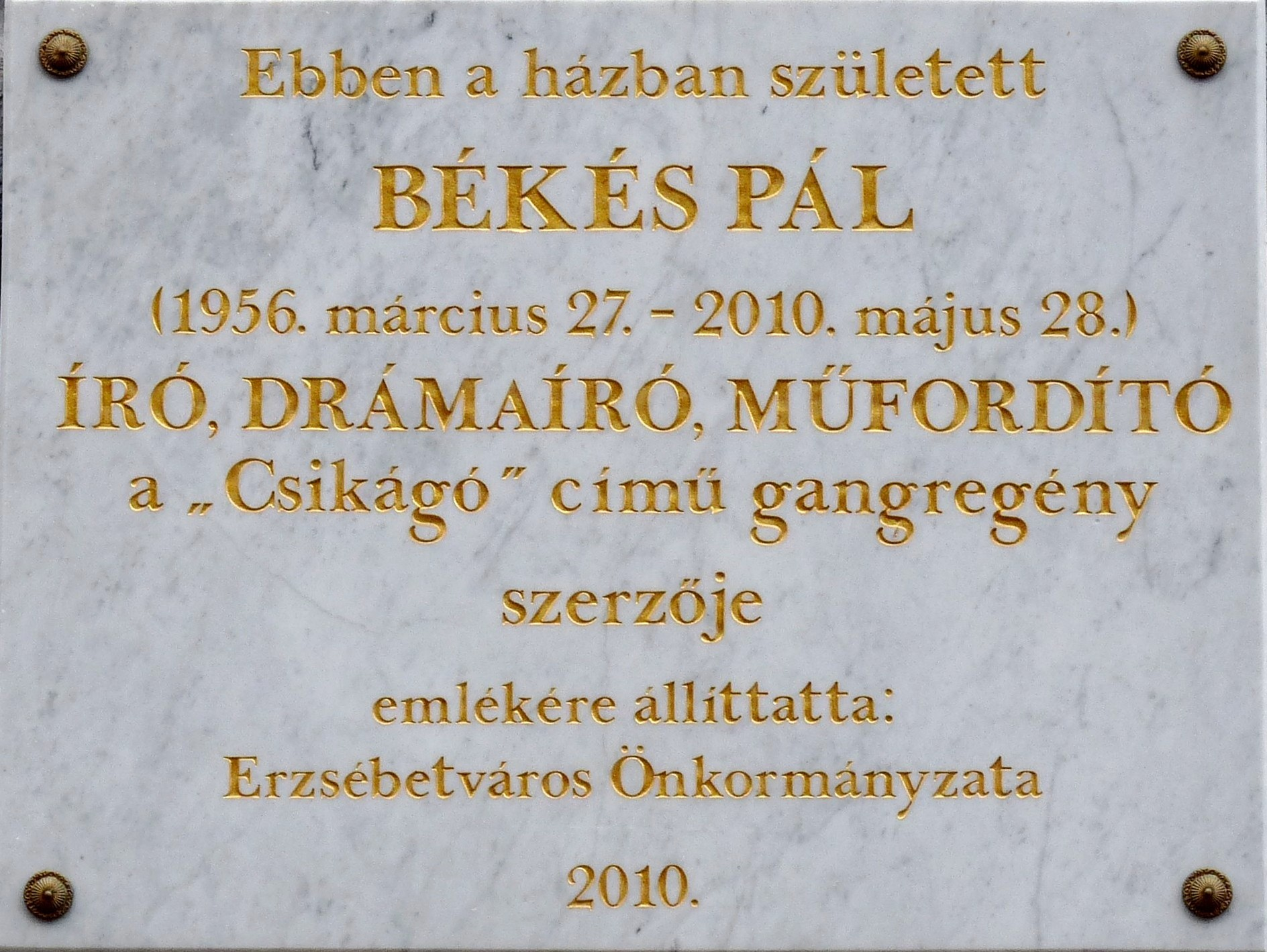 Pál Békés (writer) commemorative plaque in Budapest District VII, István Street No 19.